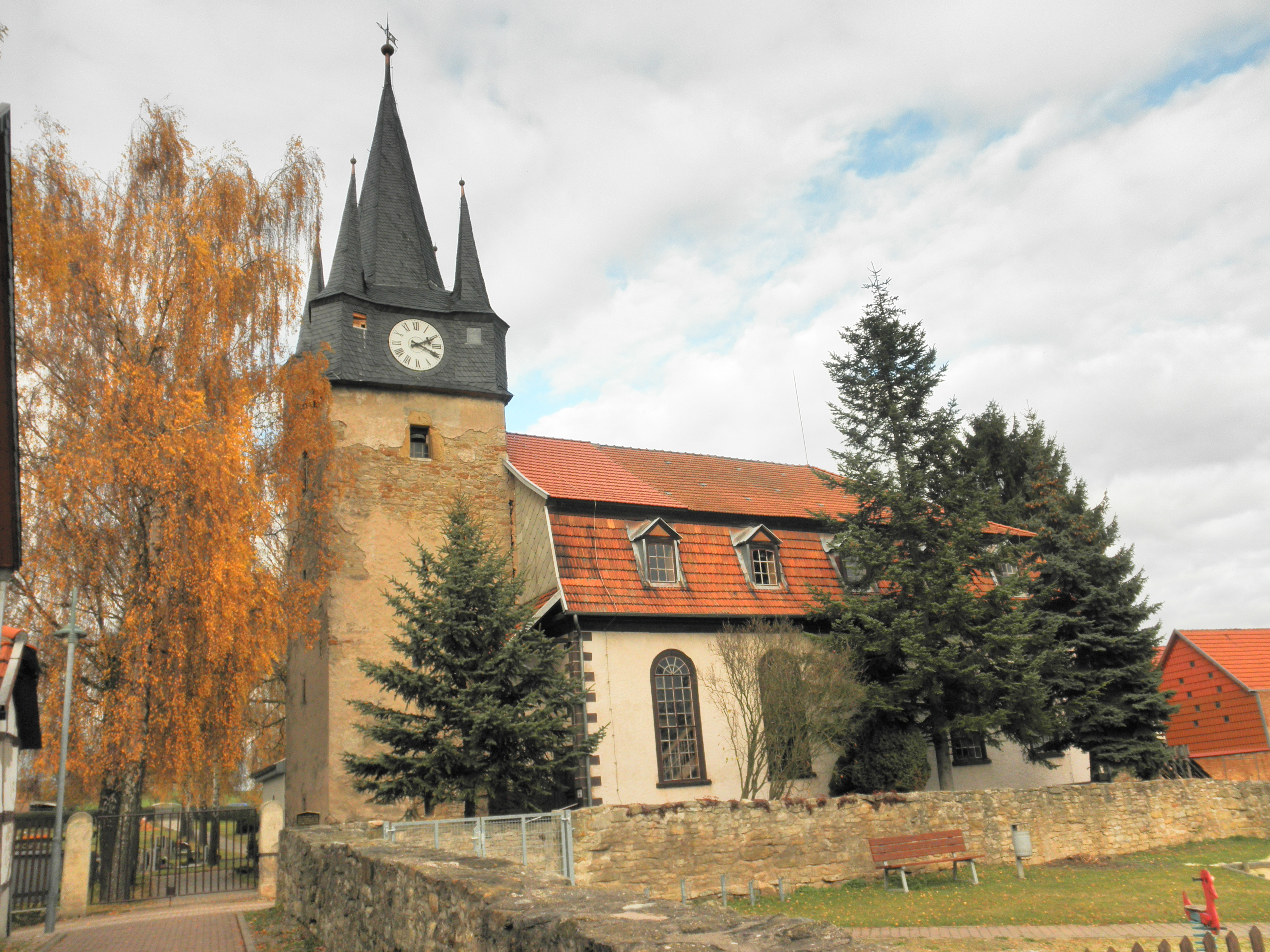 Church in Holzsußra in Thuringia